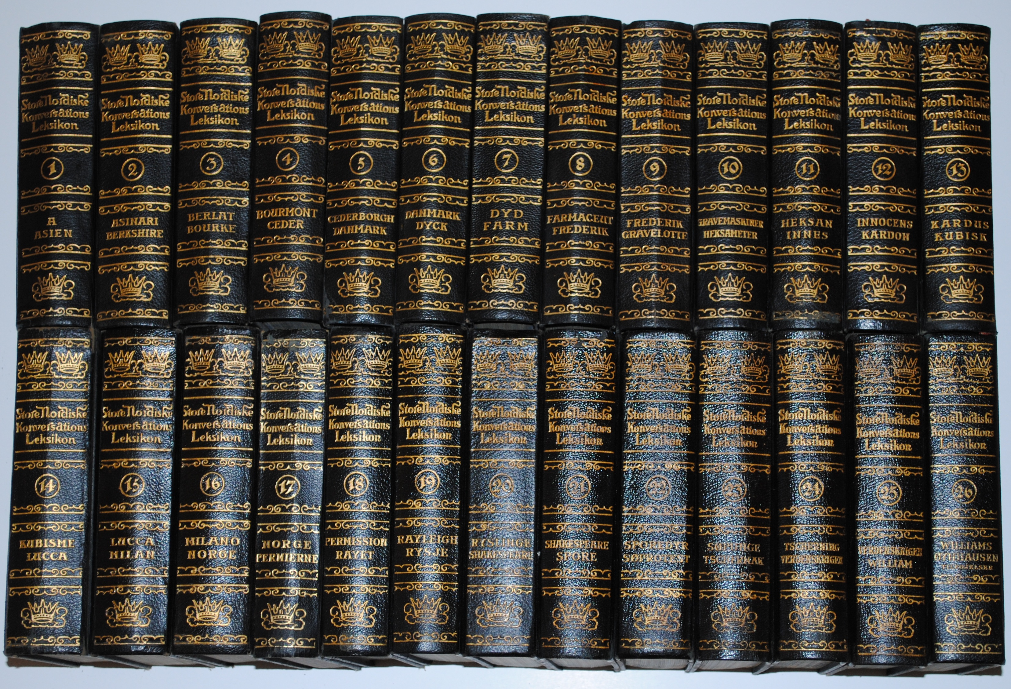 Picture of Store Nordiske Konversations-Leksikon